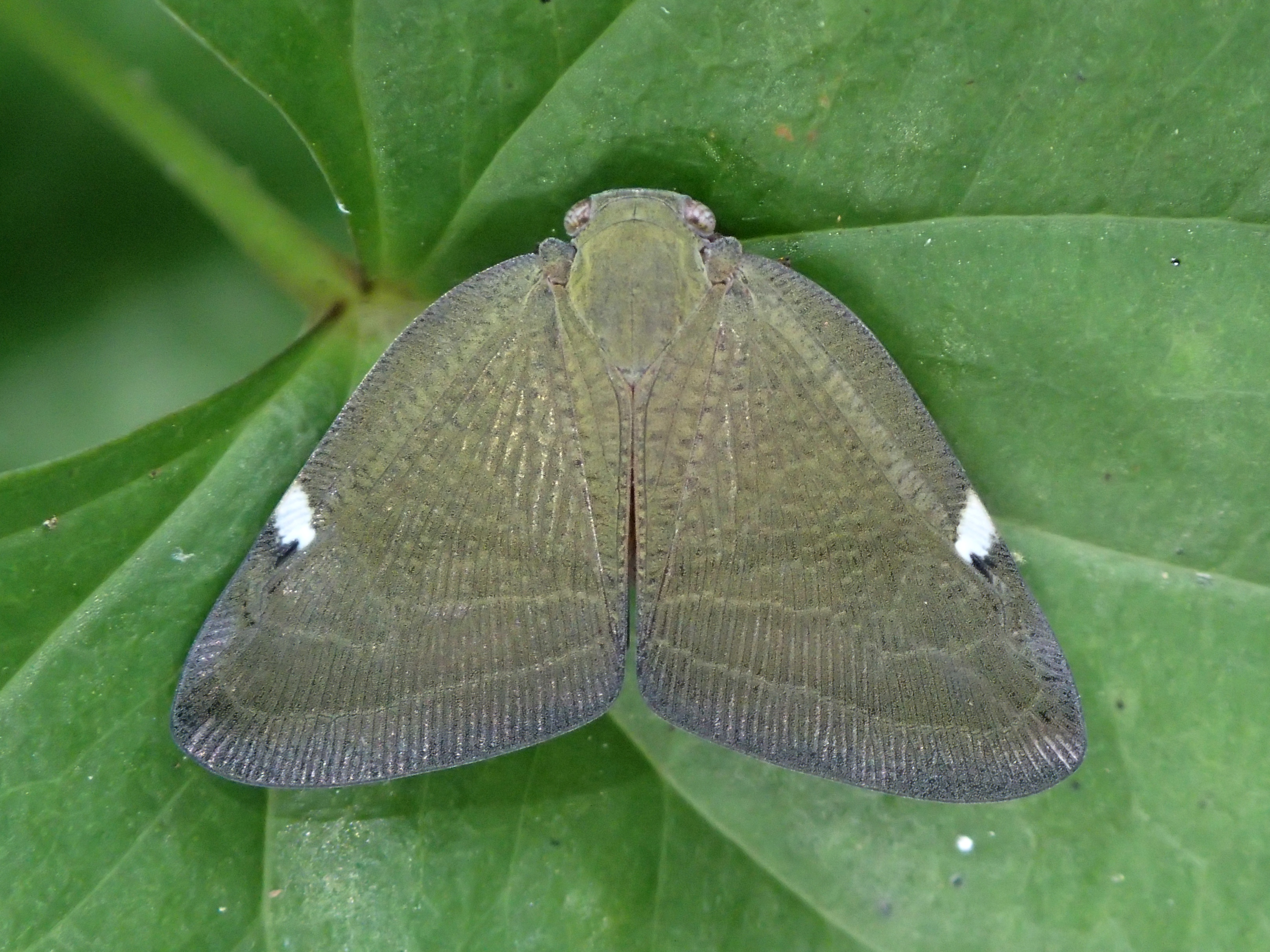 Amigasa-Hagoromo Pochazia albomaculata (Uhler, 1896) (Ricaniidae). Male from Yokohama, Kanagawa, Japan.